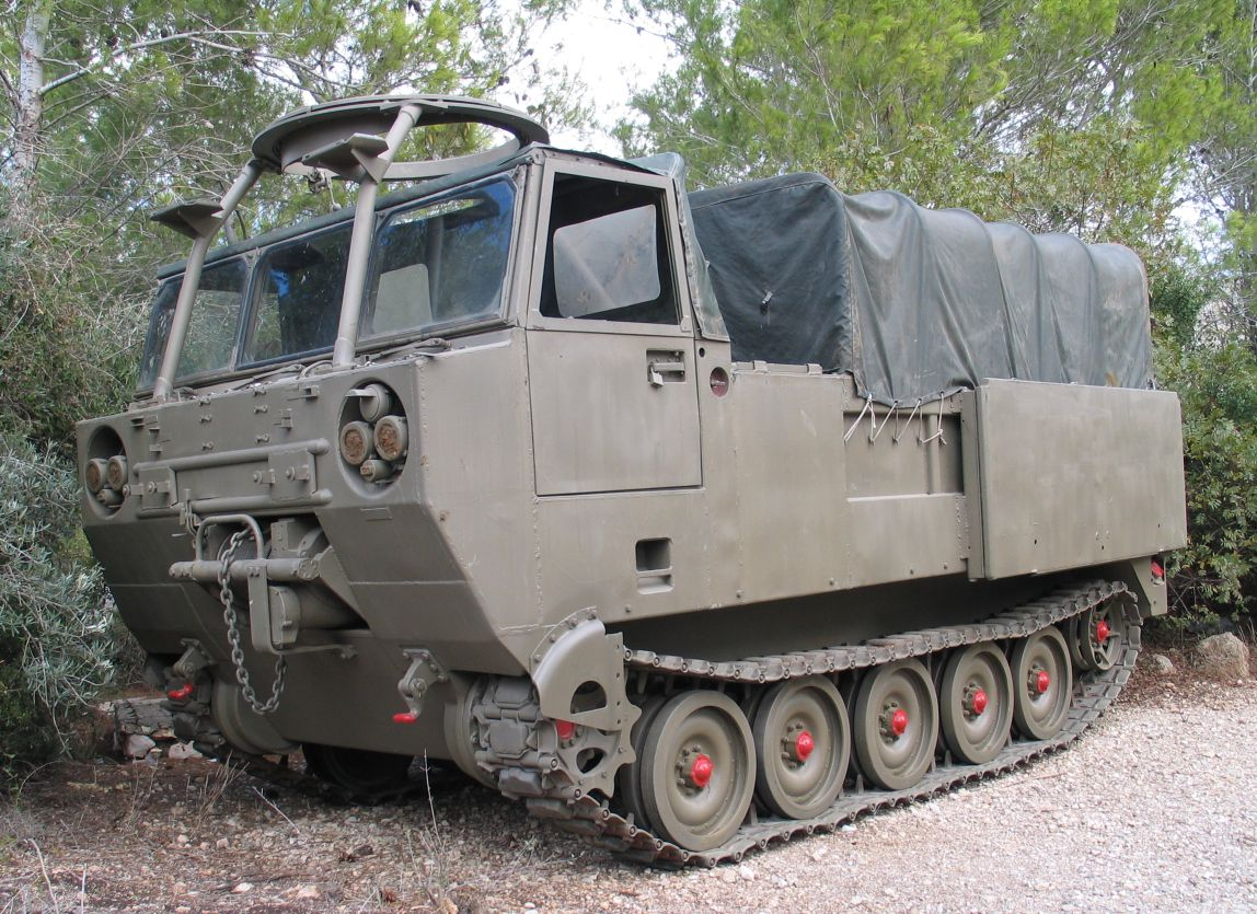 Description: M-548 Cargo Carrier on M113 APC chassis in Beyt ha-Totchan, Zichron Yaakov, Israel. Source: Photo by me, User:Bukvoed.